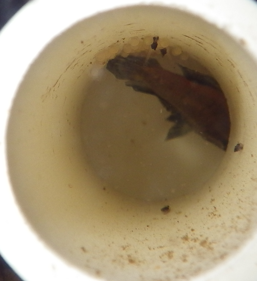 A male Parosphromenus deissneri with its spawn. The 'cave' is a capped length of 3/4" PVC pipe. Eggs are visible from a recent spawn as well as a hatched larva from an earlier spawn.